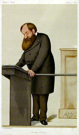 Caricature of Dwight Lyman Moody. Caption read "Prayer and Praise".